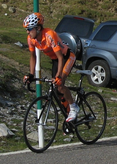 Amets Txurruka, 2008 Vuelta a España, 8th stage, Port de la Bonaigua, Spain.